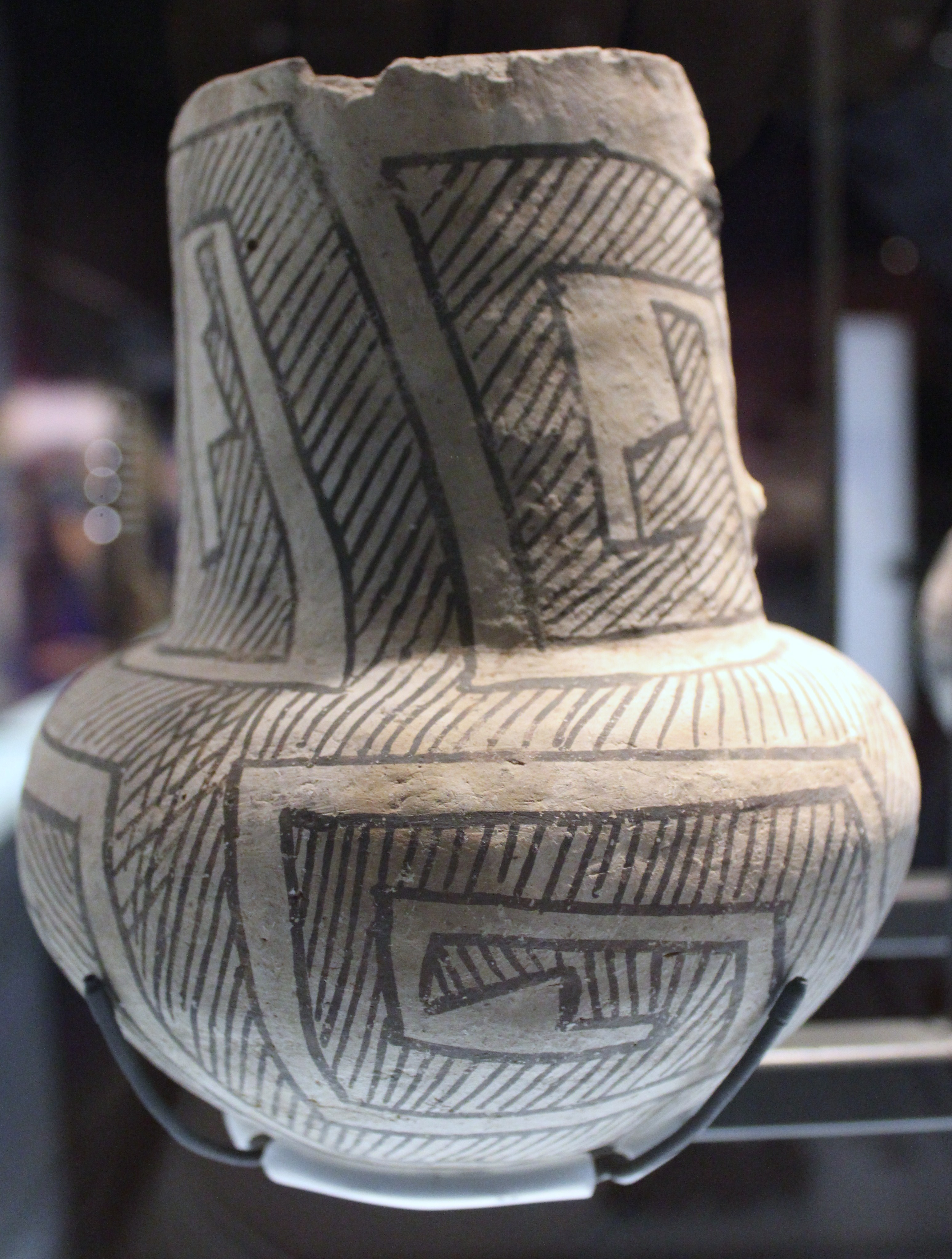 Objects at The Museum of Ethnography, Stockholm, Sweden This is a photo of an artwork at the Museum of Ethnography in Sweden with the identifier: 1914.24.0008